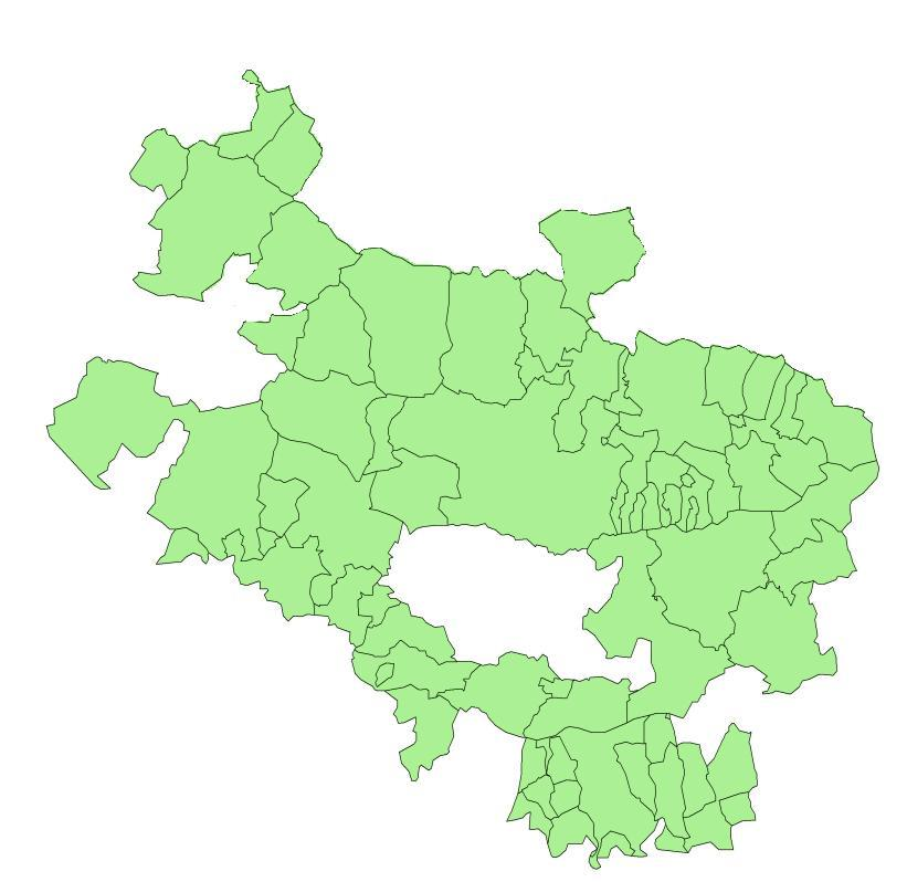 Municipalities of the province of Alava (Spain)